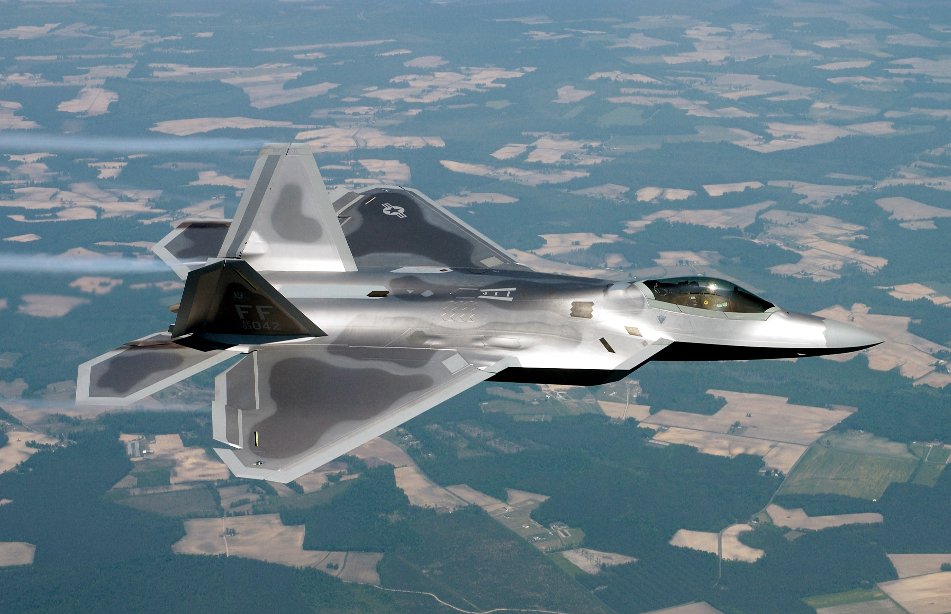 F-22A 03-042, the 1st F-22A Assigned to the 27th Fighter Squadron, 2005